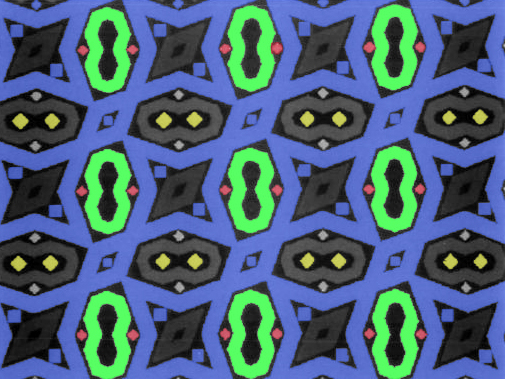 geographical visual test card for a neuroimaging study of visual memory